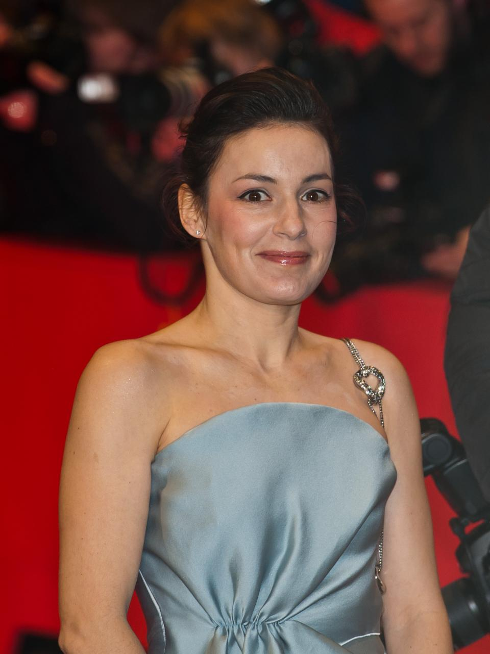 German actress Nicolette Krebitz, Opening of the 62nd Berlin International Film Festival.